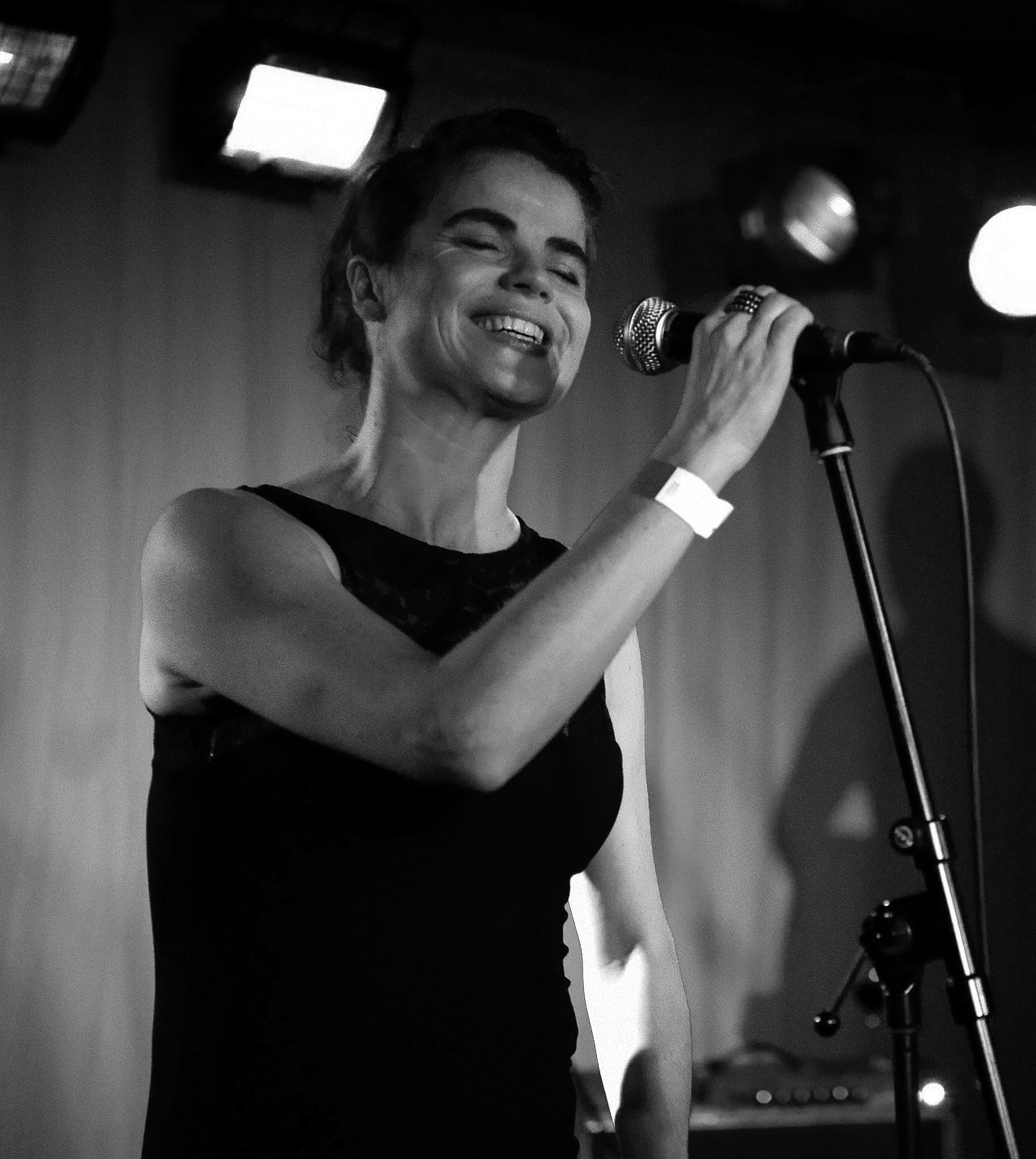 Françoiz Breut in Concert at »Sparte4« in Saarbruecken